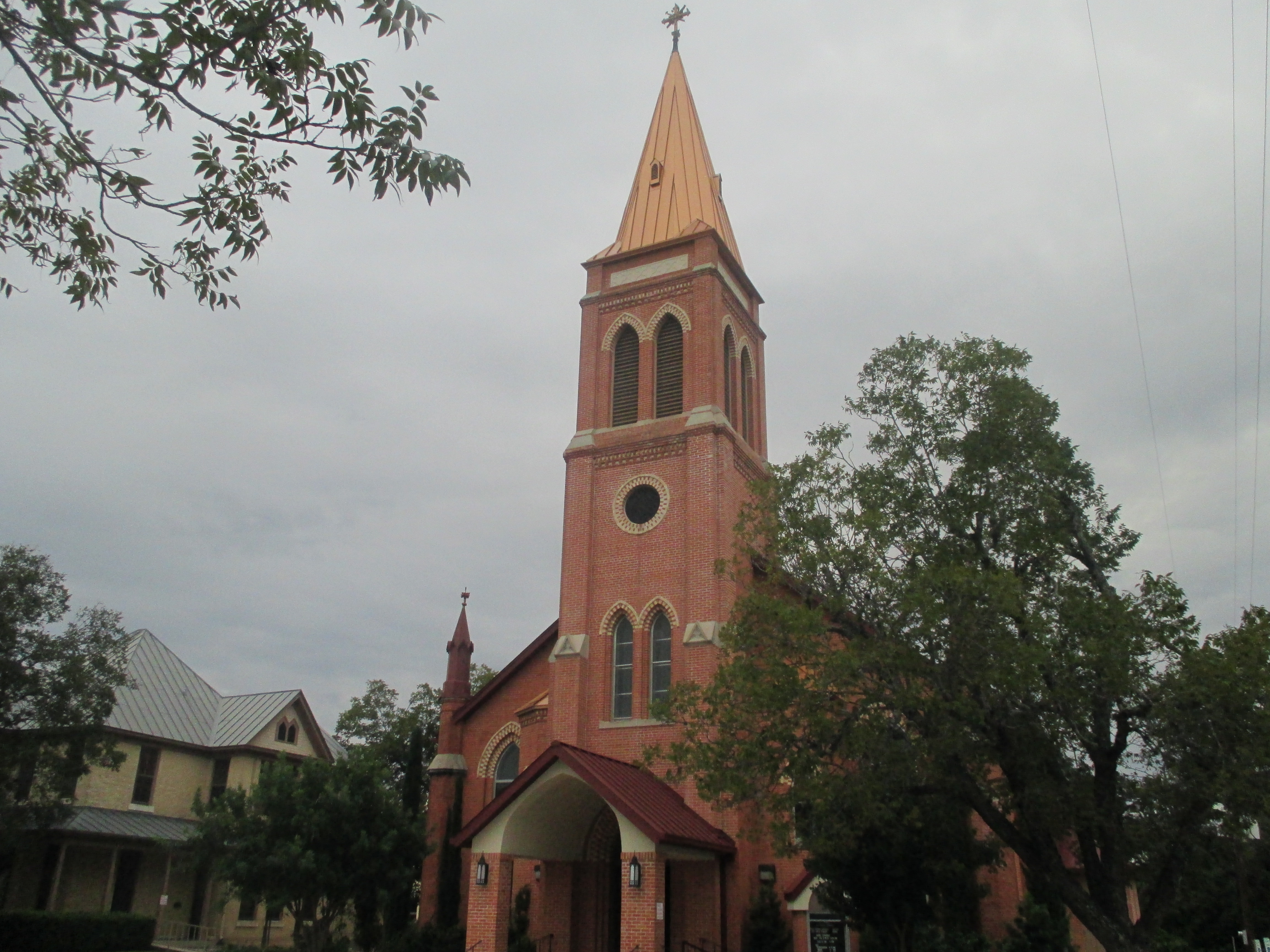 I took photo with Canon camera of St. James Catholic Church in downtown Seguin, TX.